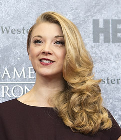 Natalie Dormer at HBO's "Game Of Thrones" Season 3 Seattle Premiere at Cinerama.